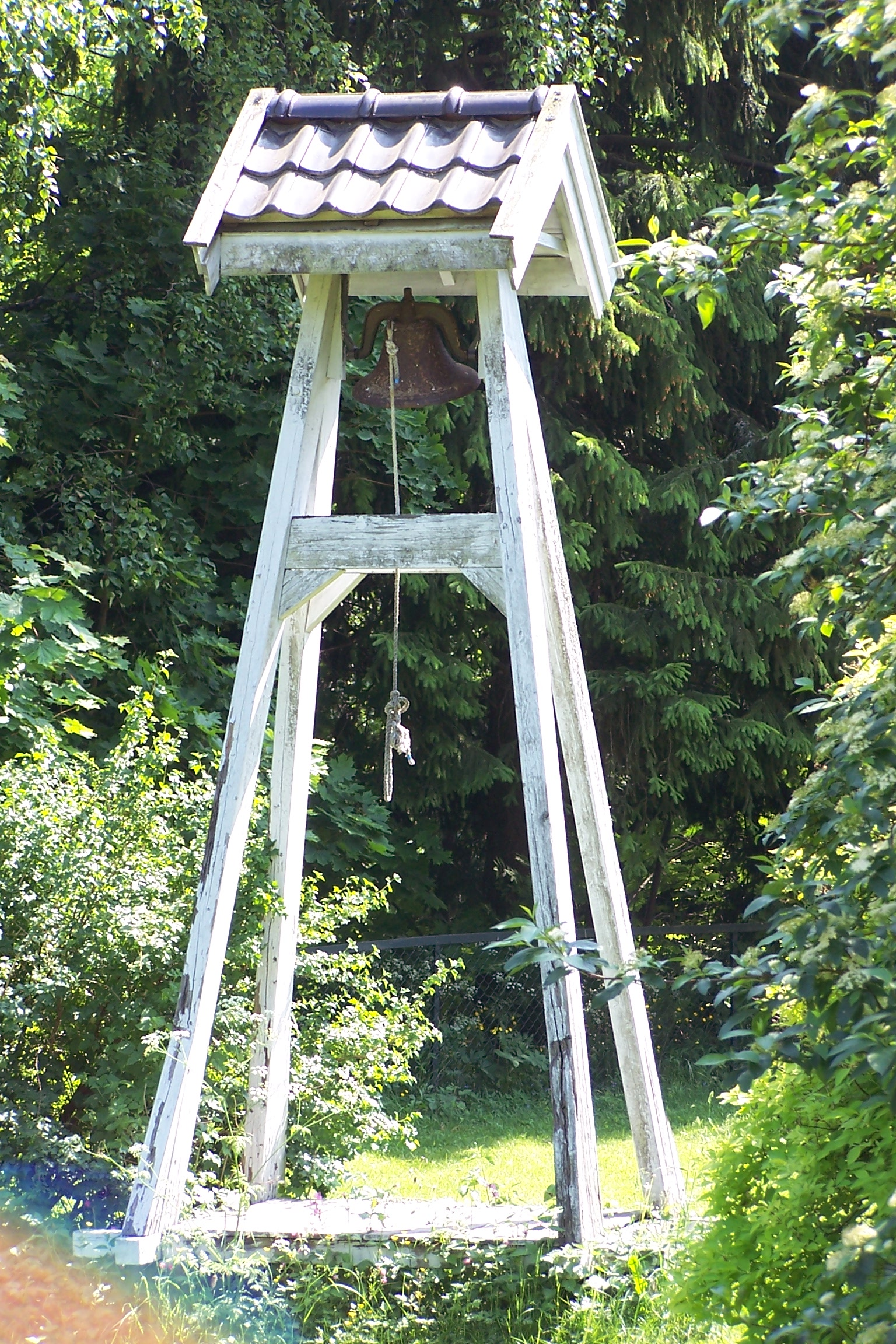 Hølen, warning bell from old fire station